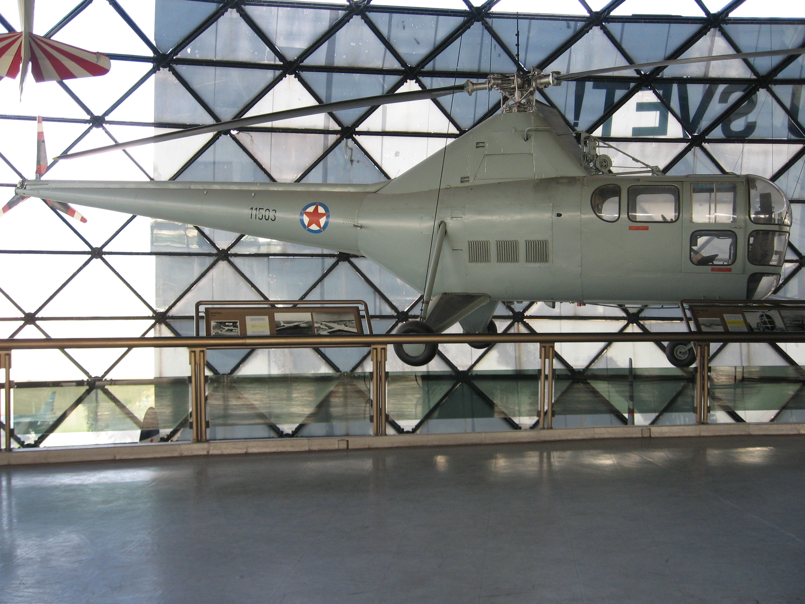 WS-51 Mk.1B